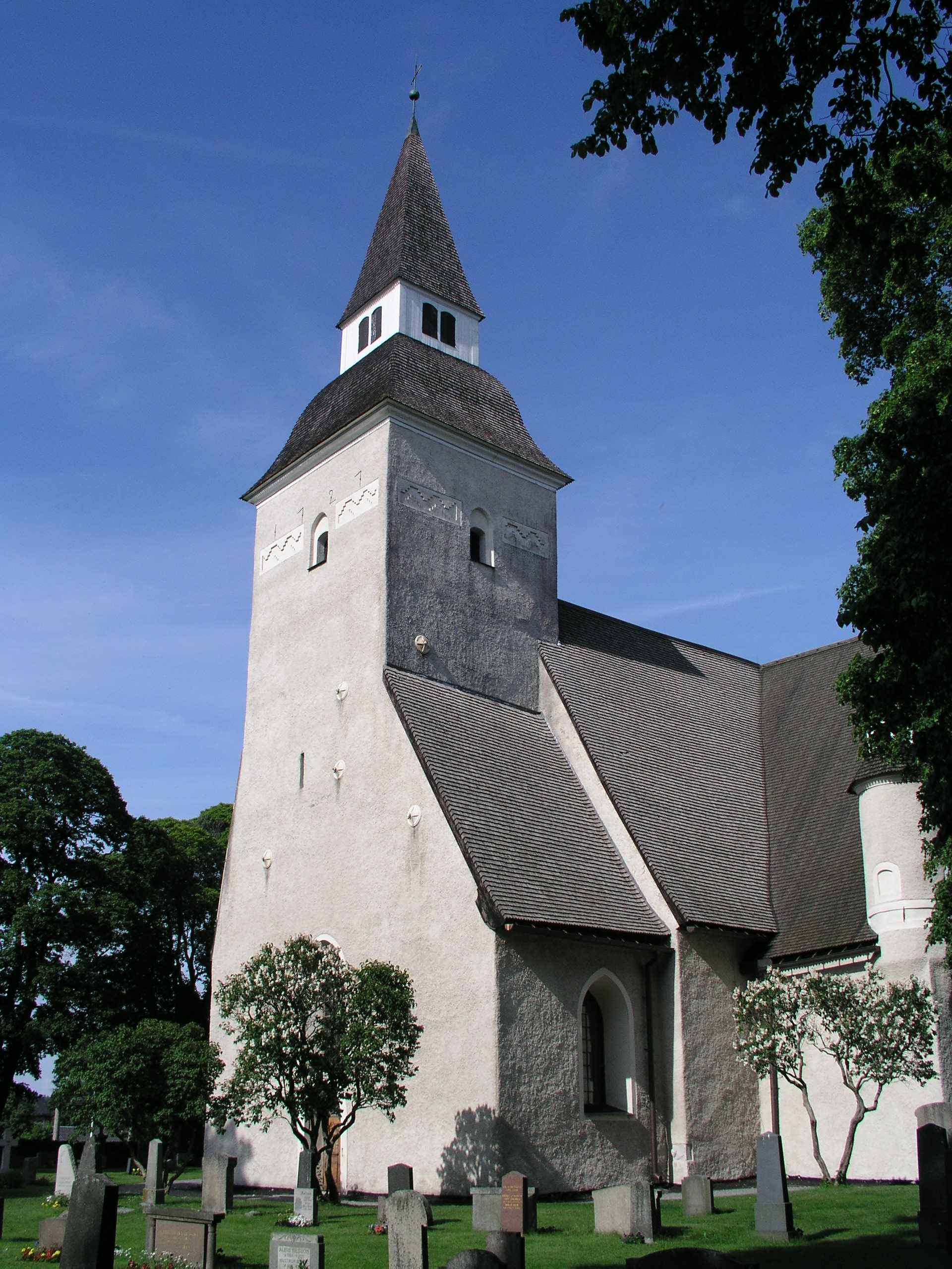 Sorunda Church, Nynäshamn, church tower, general view. No correction has been made to the picture.